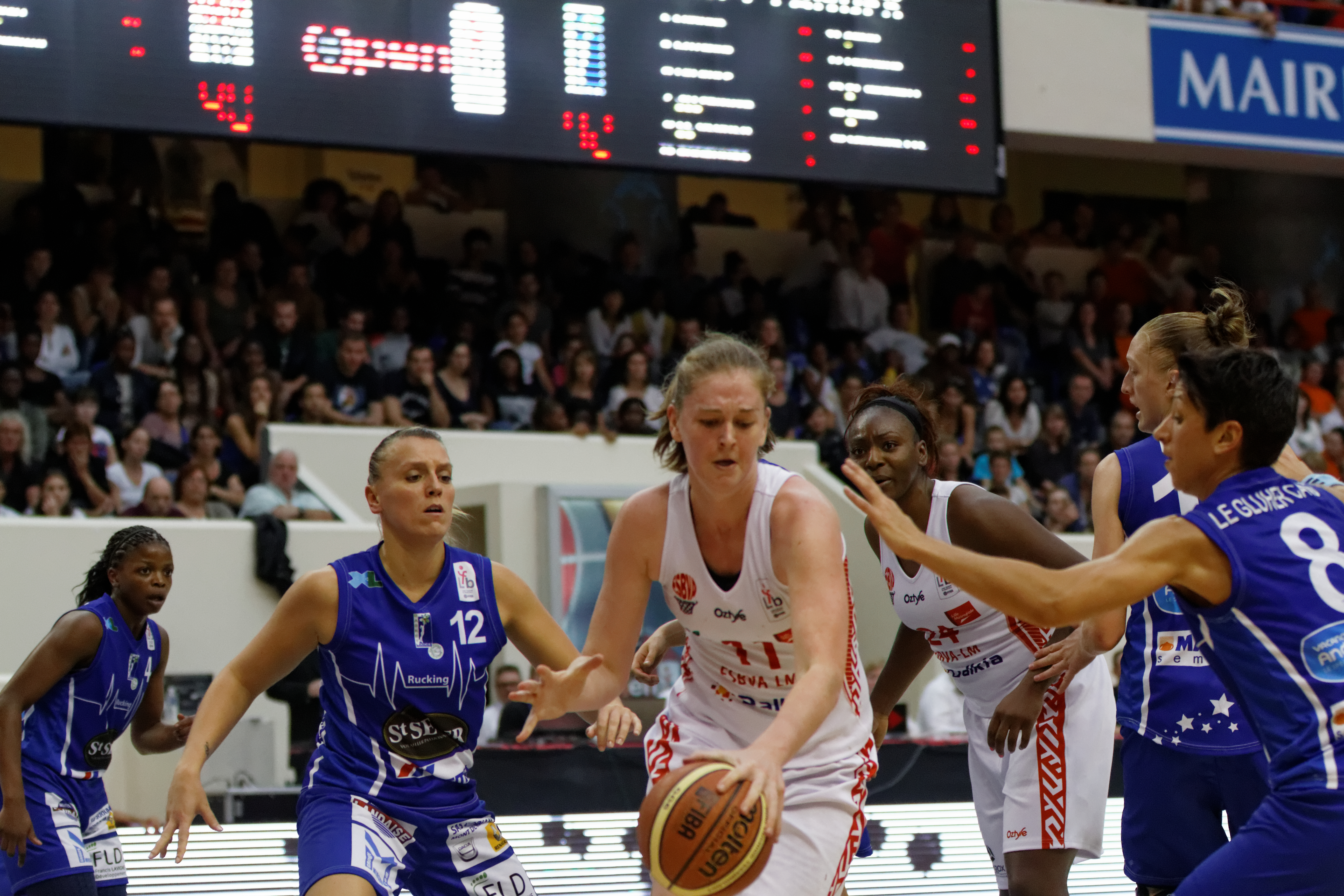 Open LFB, Villeneuve d'Ascq-Basket Landes, October 5th, 2013.